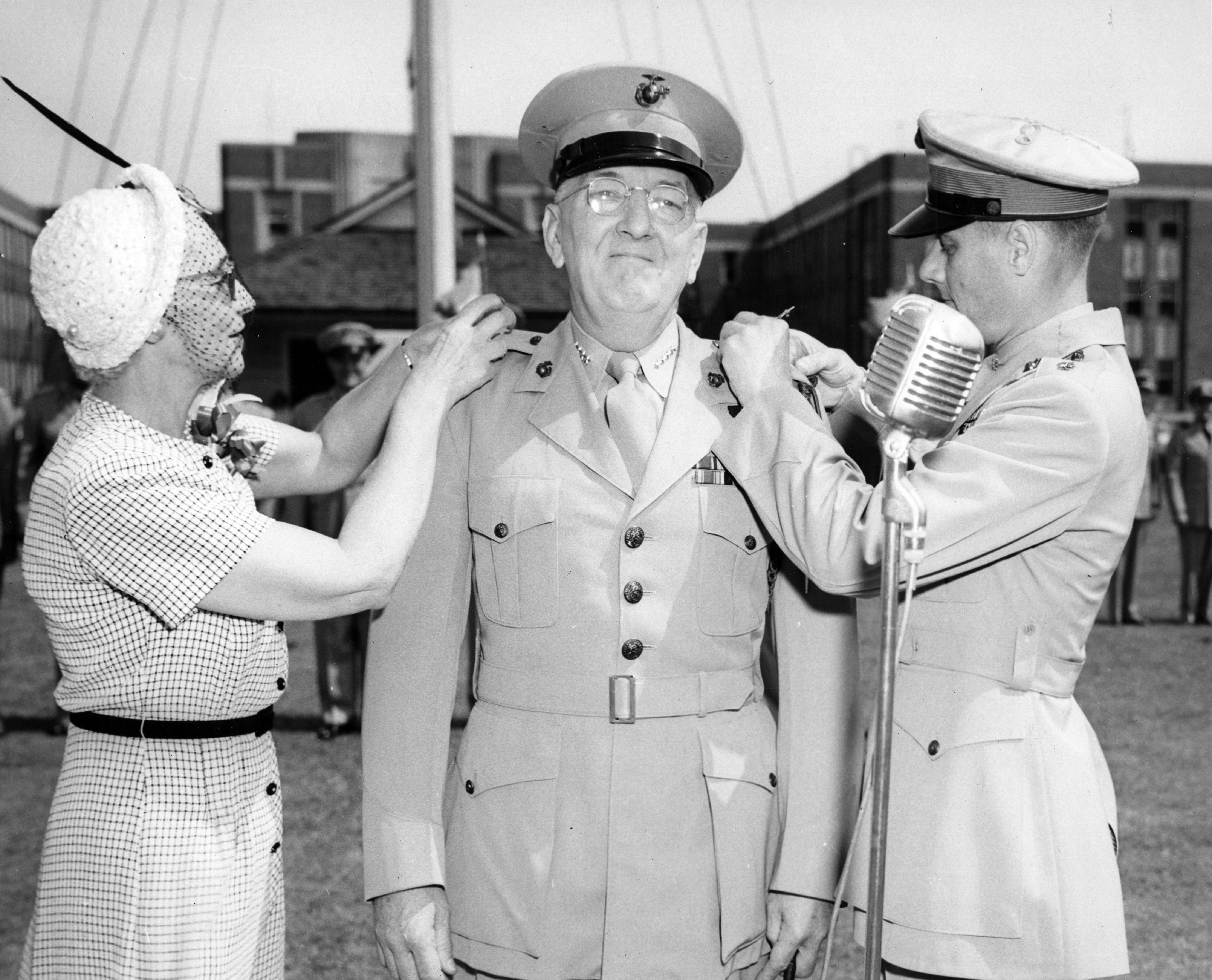 LeRoy Philip Hunt (March 17, 1892 – February 8, 1968) was a highly decorated officer in the United States Marine Corps with the rank of General. A veteran of World War I, he was decorated the Navy Cross and Army Distinguished Service Cross, the United States military's two second-highest decorations awarded for valor in combat.